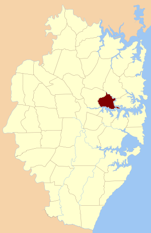 original location of the parish within Cumberland County, New South Wales (Sydney area)